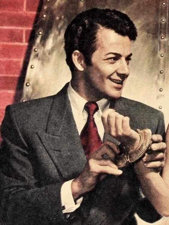 Cornel Wilde holding Patricia Knight's hand, 1946